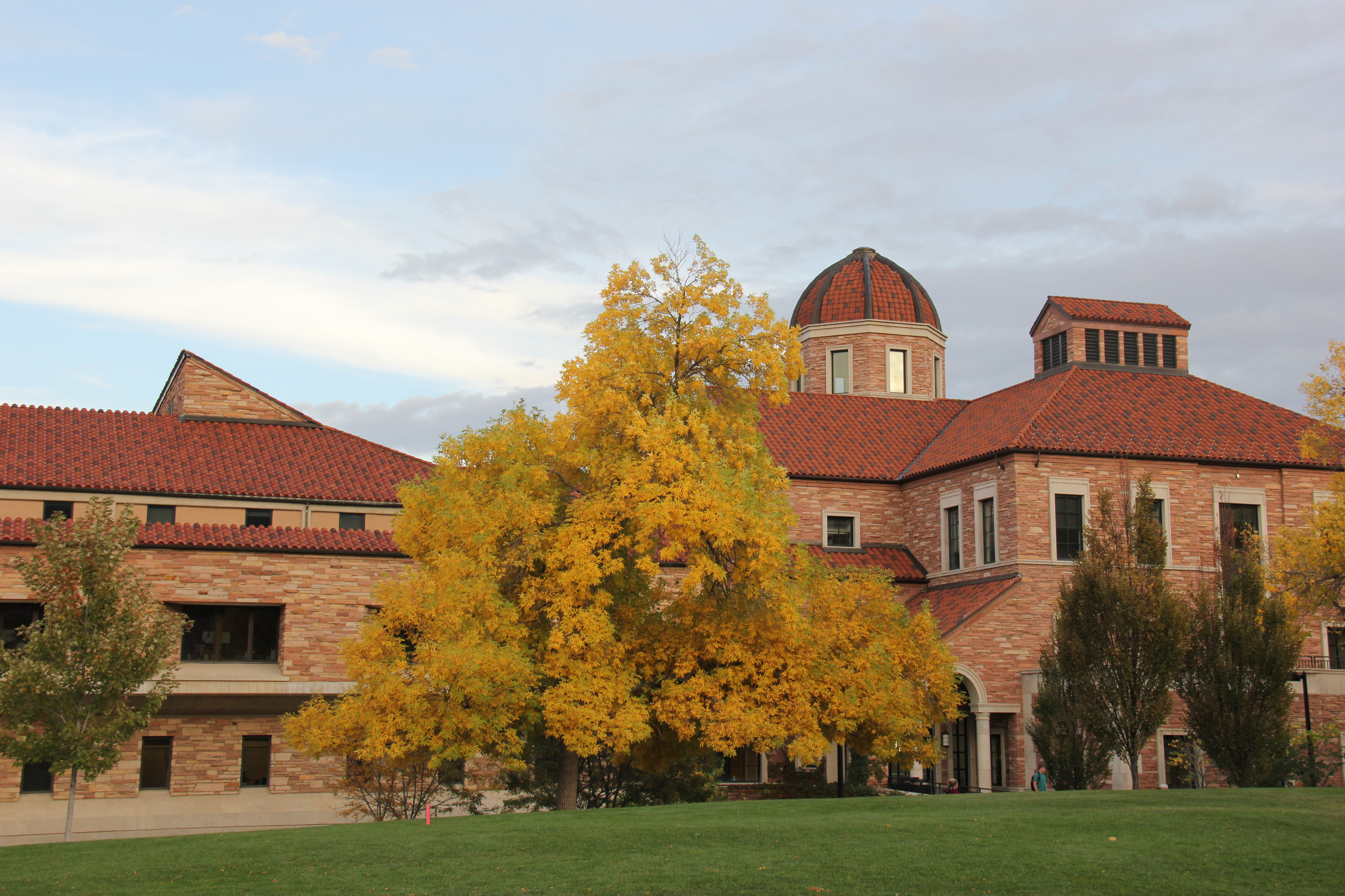 Koelbel Building at the Leeds School of Business - October 2015